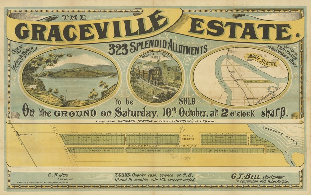 Creator: G.T. Bell, Auctioneer ; G.K. Jopp, Surveyor. Location: Graceville, Brisbane, Queensland. Description: 323 allotments, to be sold on the ground Saturday 10th October, at 2 o'clock sharp. 52 x 88 cm. Map includes conditions of purchase, locality map and 2 colour sketches. Published by Warwick & Sapsford, lithographer (Brisbane). Read more about SLQ's map collections: View this image at the State Library of Queensland: Information about State Library of Queensland’s collection: You are free to use this image without permission. Please attribute State Library of Queensland.